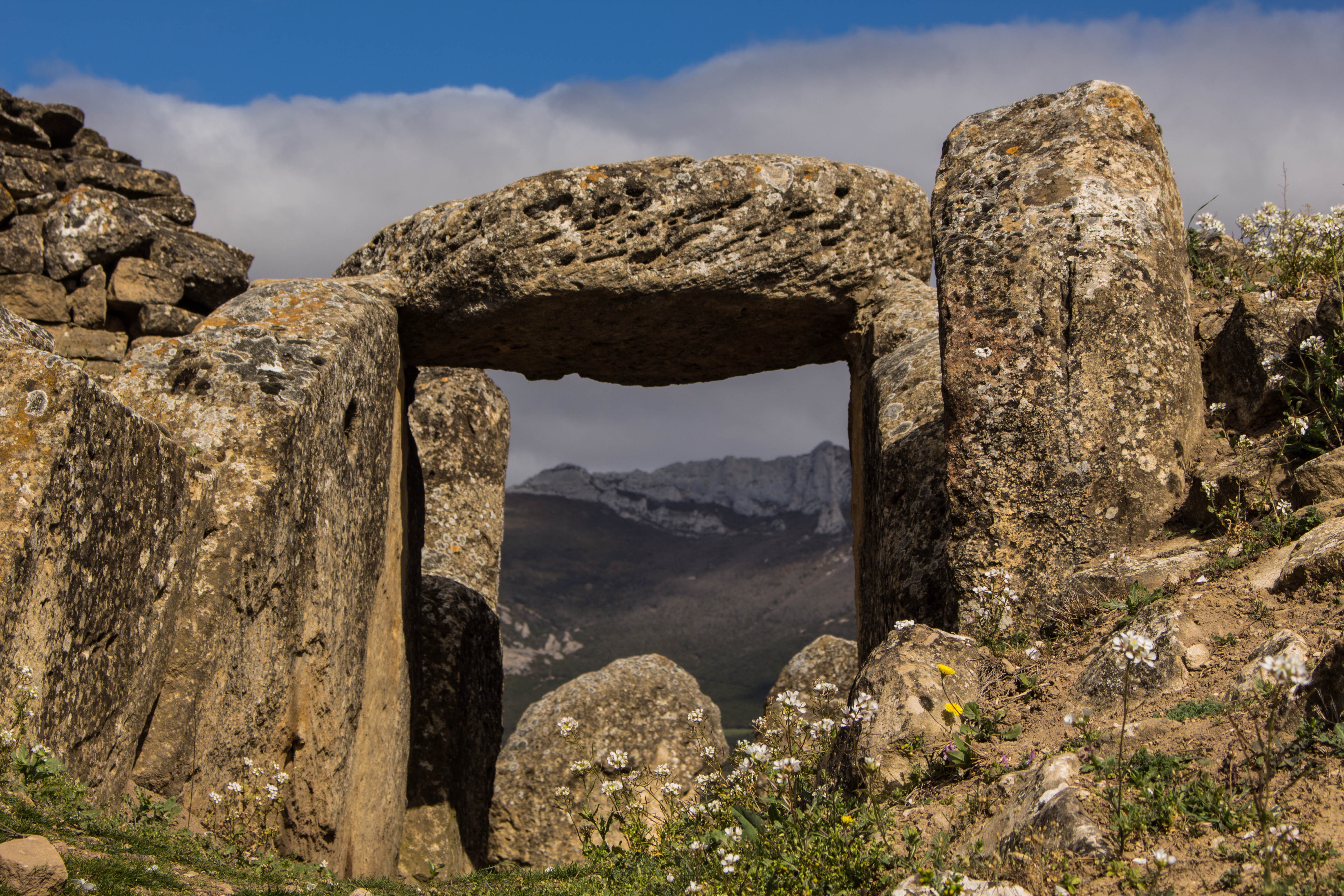 A dolmen with a simple shape